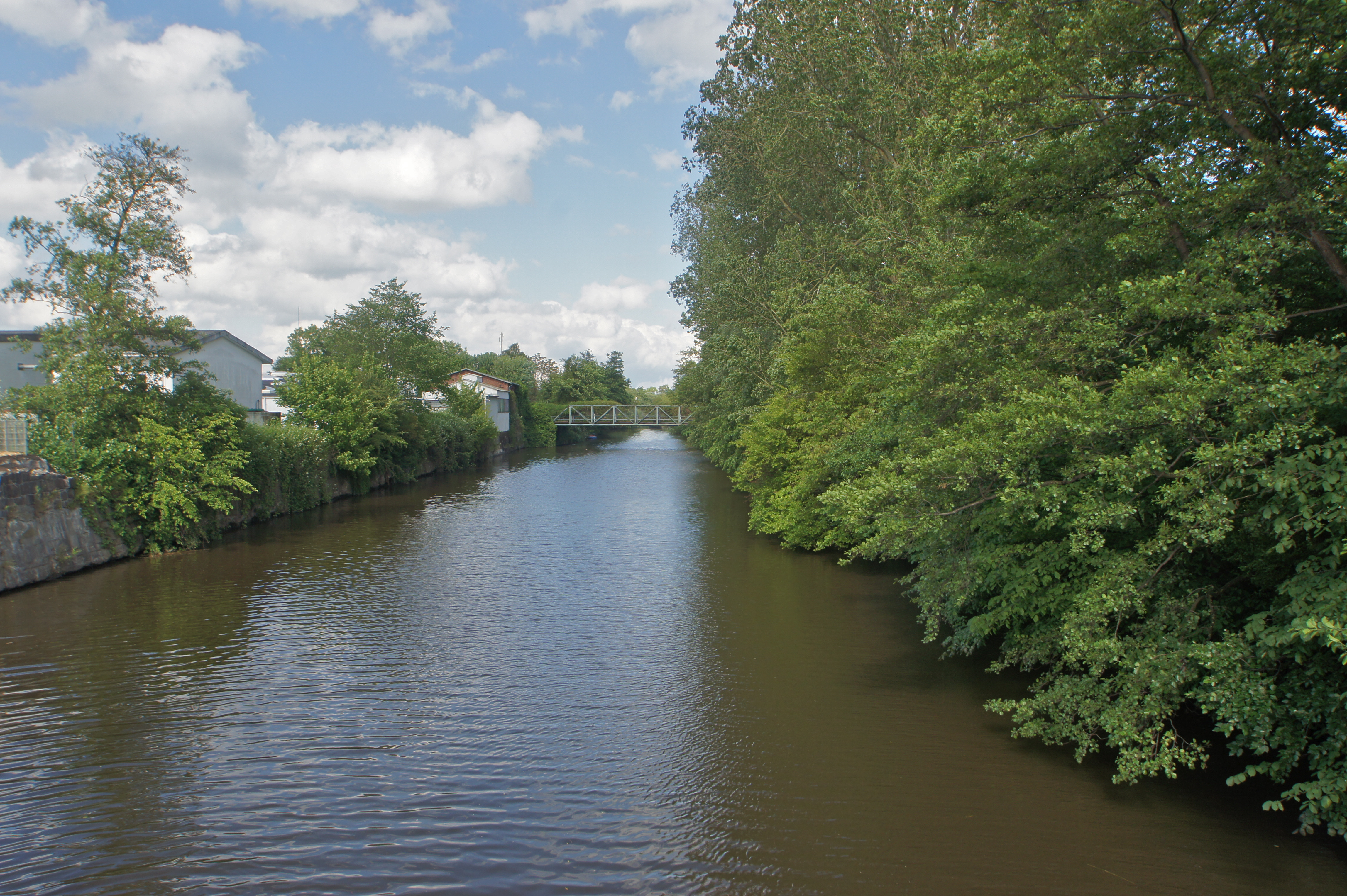 Glückstadt, Germany: The Rhin at the Stadtstrasse